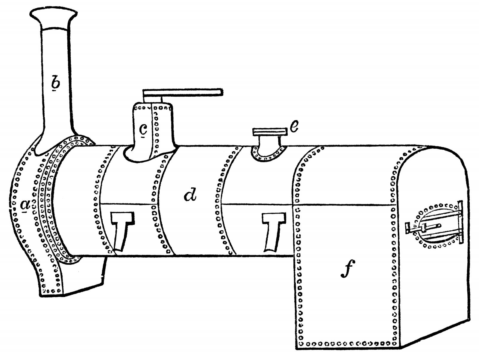 "Locomotive Boiler.—All locomotive boilers are of the class called multibar: they consist essentially of the barrel filled with tubes, while the two ends are named respectively the furnace, or fire box, and the smoke box. Boiler plates should be rolled from the best iron to about three-eighths or half an inch in thickness; these form the barrel, which has a diameter varying from three feet to four feet three inches in different boilers, and consists of three or six plates for each boiler, and their joints are arranged to give as much strength as possible. d is the barrel of tubes. f is the fire box. The fire door is seen at the end in front of which stands the driver and fireman, the latter supplying the engine with coke by throwing it into the furnace; the fire door is always oval. e is the safety valve; there is also a second safety valve sometimes placed on top of c, the steam dome or chest. b is the chimney, bolted on to the top of the smoke box a.